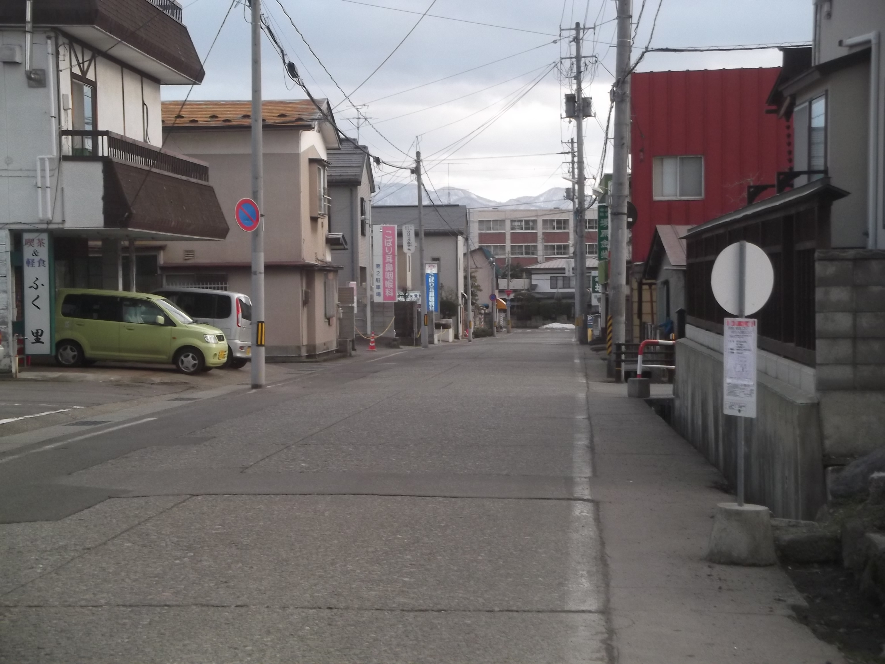 Landscape of Yokomikkamachi, Aizuwakamatsu, Fukushima.